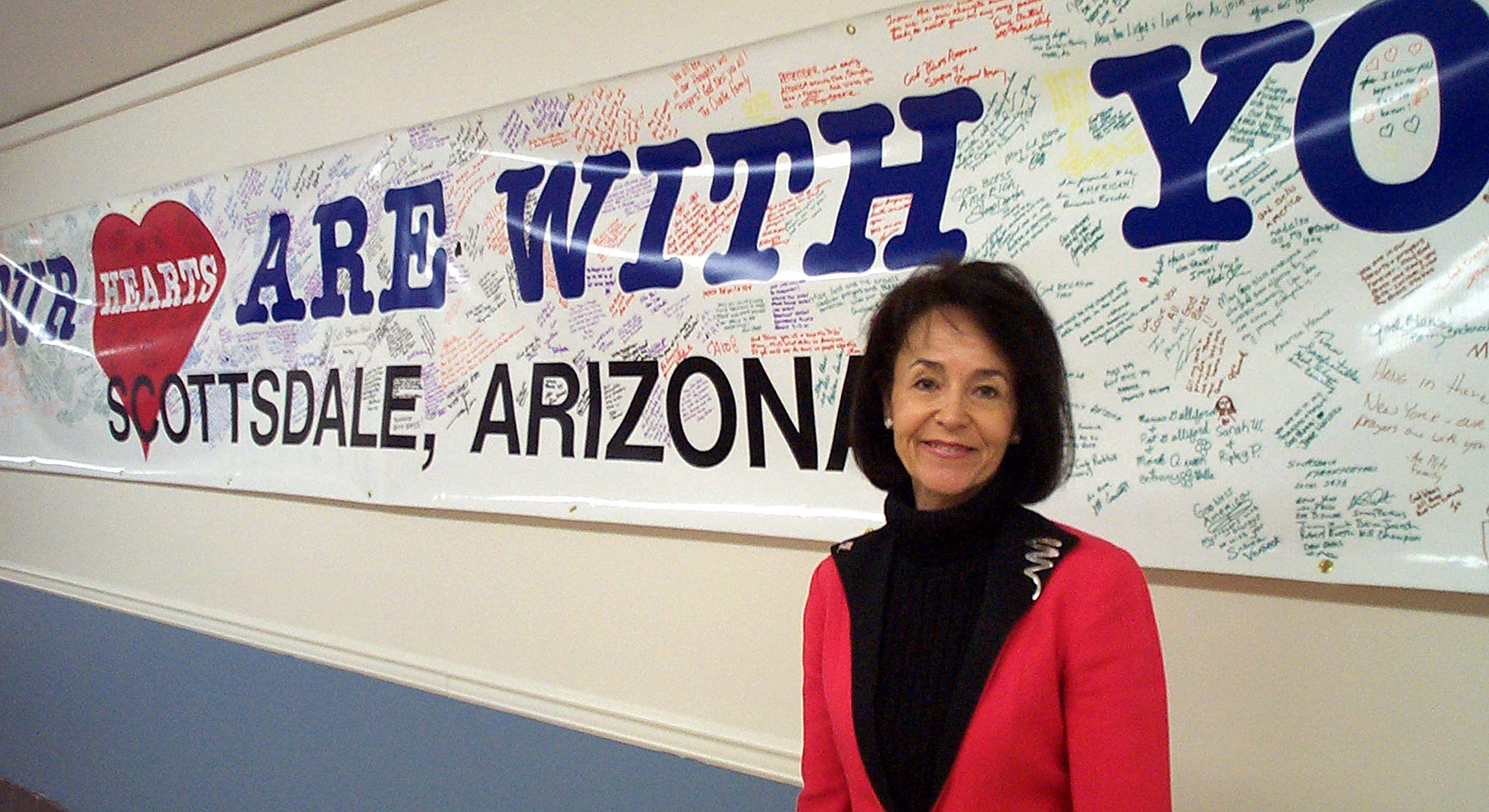 Original caption: "Mayor Mary Manross of Scottsdale, Ariz., visits the Pentagon corridor where hangs a banner signed and sent by well-wishers in the Phoenix suburb. Photo by Jim Garamone."